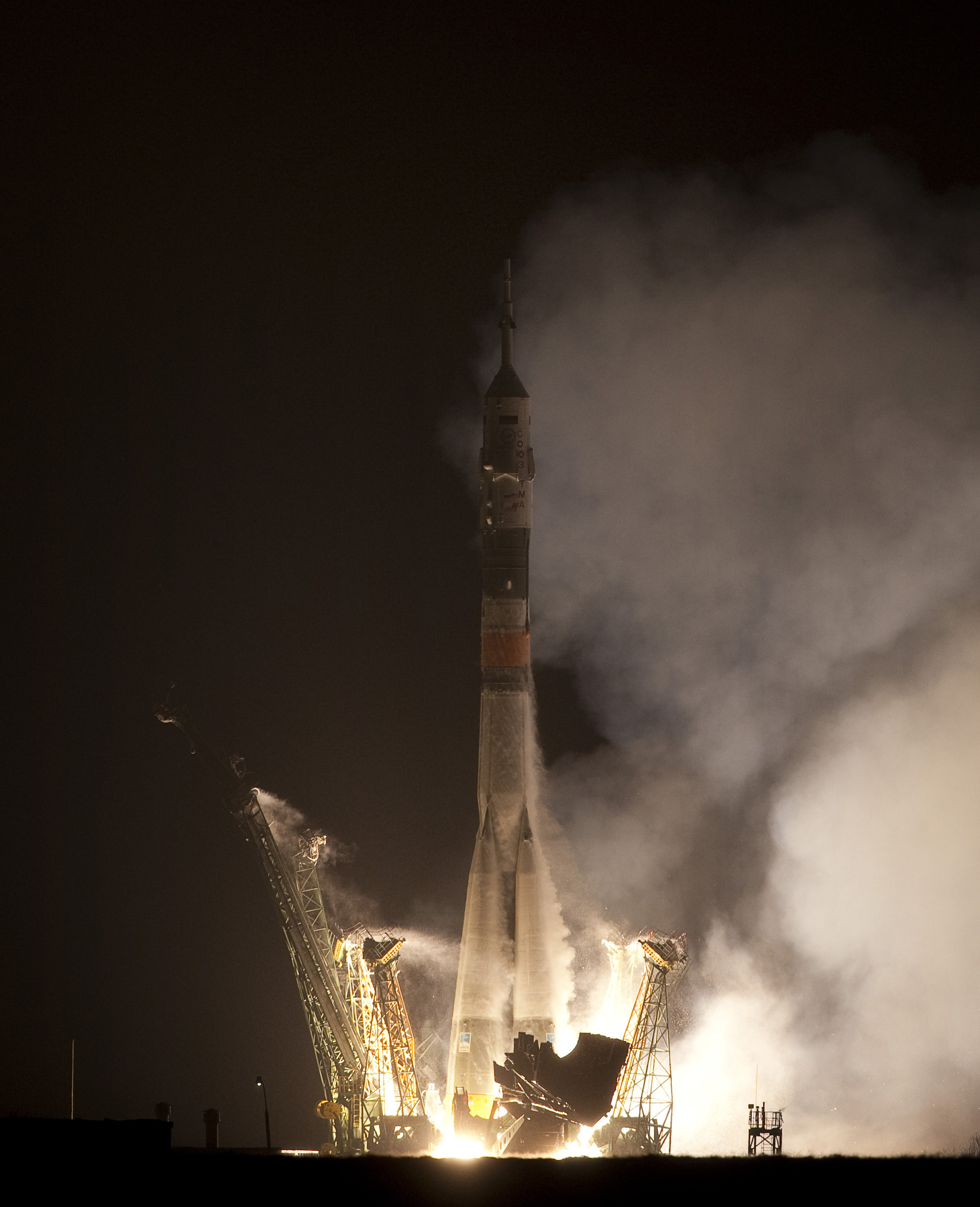 The Soyuz TMA-17 rocket launches from the Baikonur Cosmodrome in Kazakhstan on Monday, Dec. 21, 2009, carrying Expedition 22 NASA Flight Engineer Timothy J. Creamer of the United States, Soyuz Commander Oleg Kotov of Russia, and Flight Engineer Soichi Noguchi of Japan to the International Space Station.